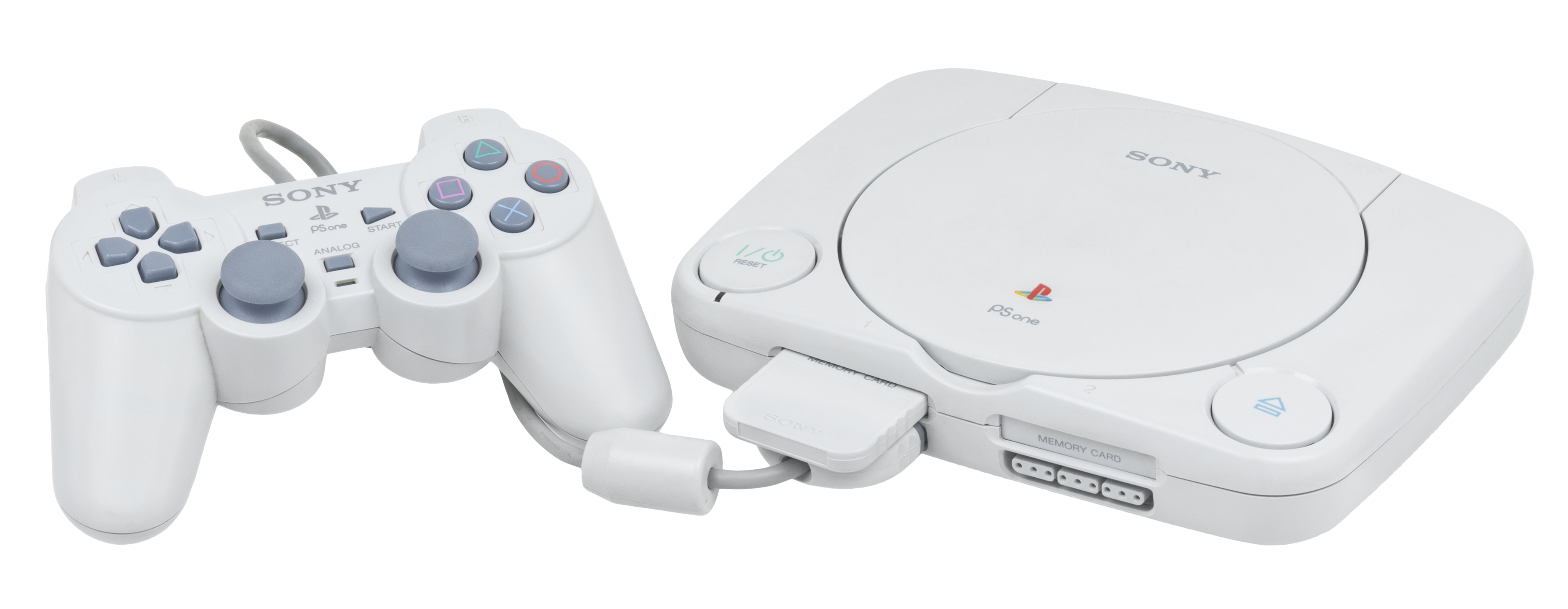 A PSone game console shown with matching controller and memory card. The PSone was re-design of the original PlayStation and much smaller in size.